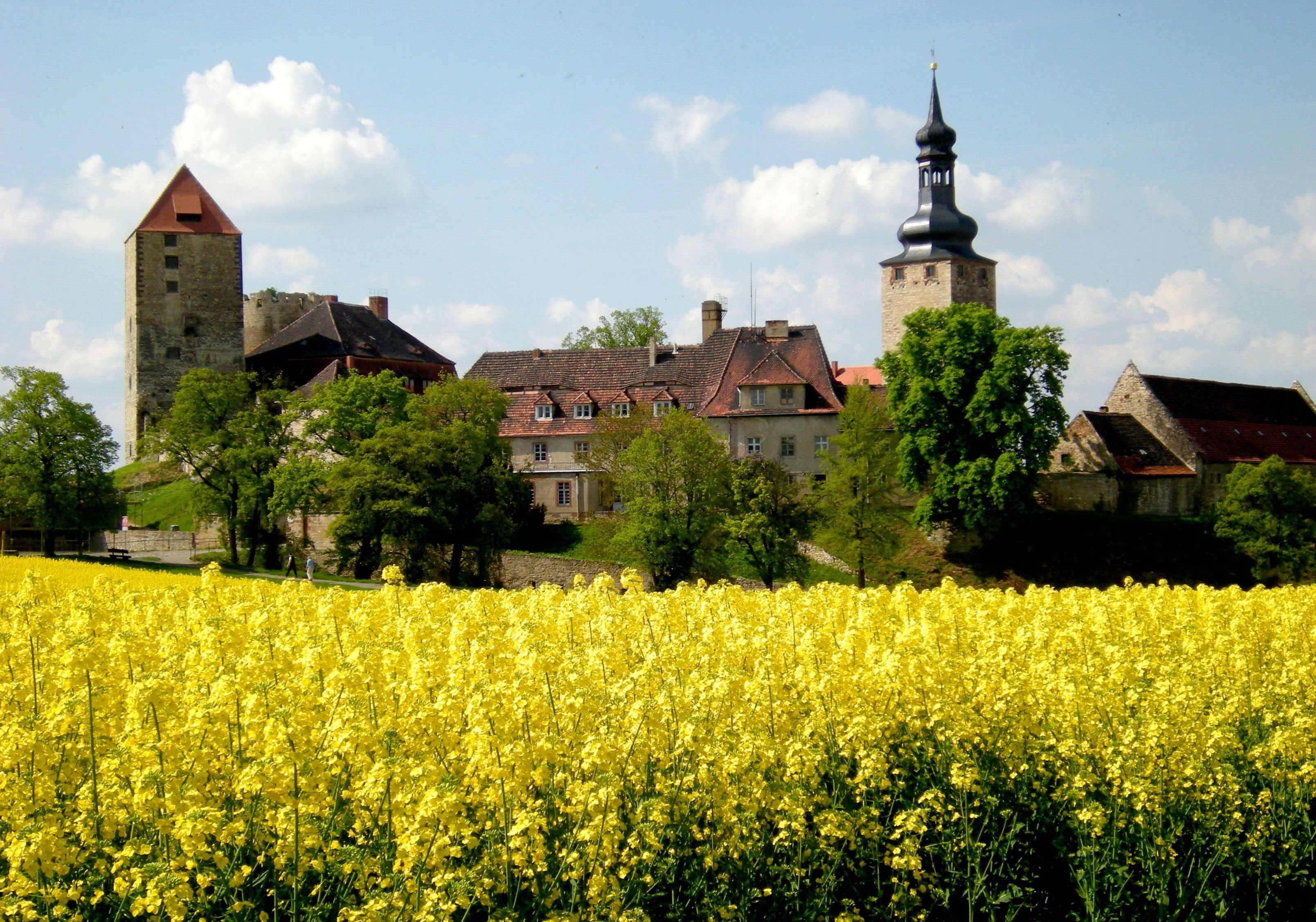 Querfurt - Castle with rapeseed field